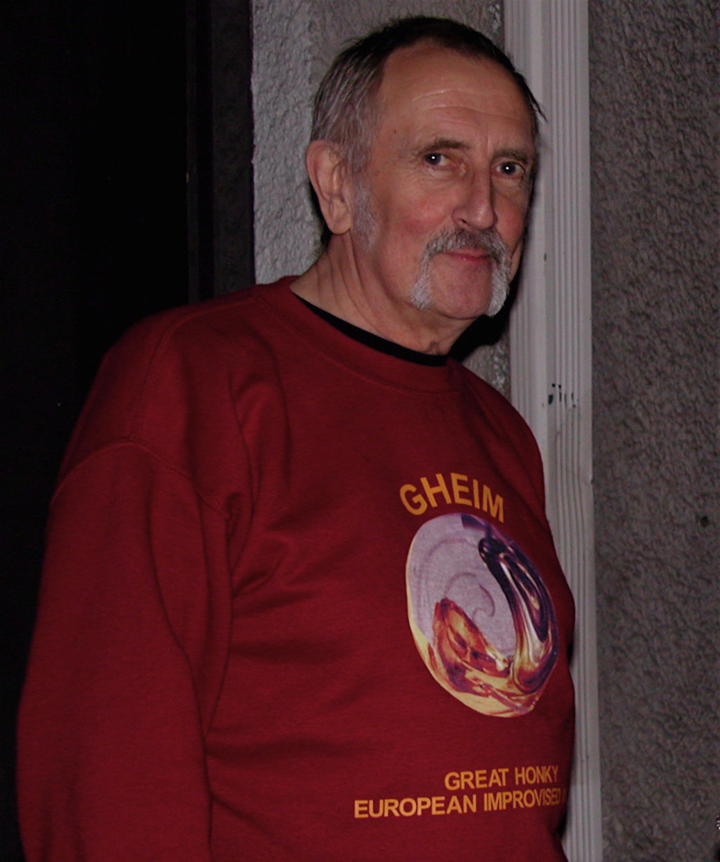 taken after a concert in Milwaukee on June 19, 2005